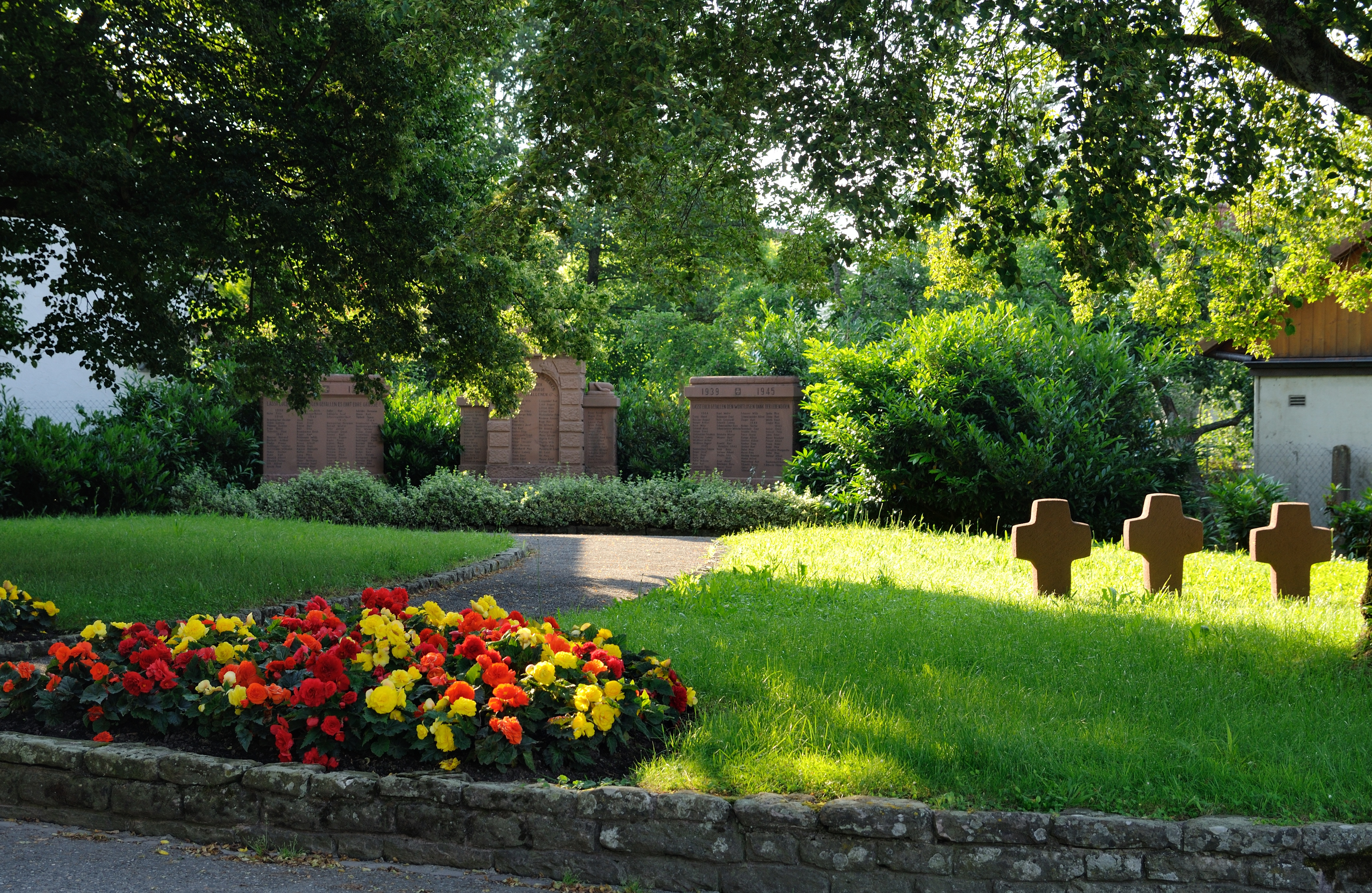 Hauingen: war memorial